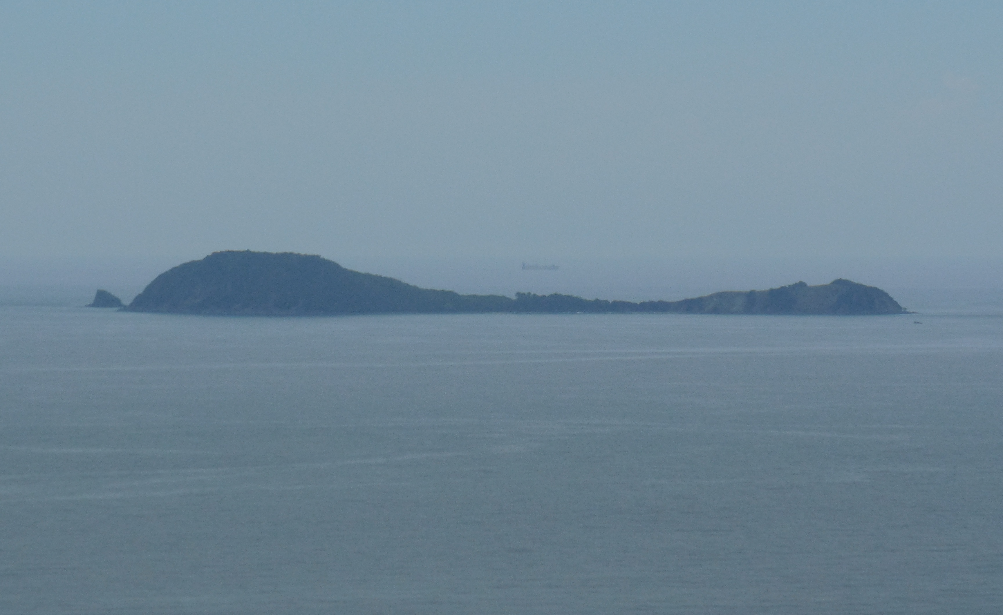 Bantoncillo Island, one of the four smaller islands under the jurisdiction of Banton, Romblon